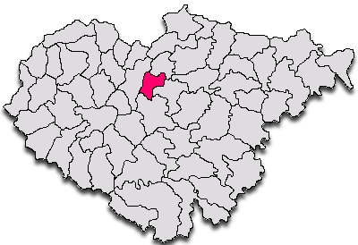 Map Salaj County Romania